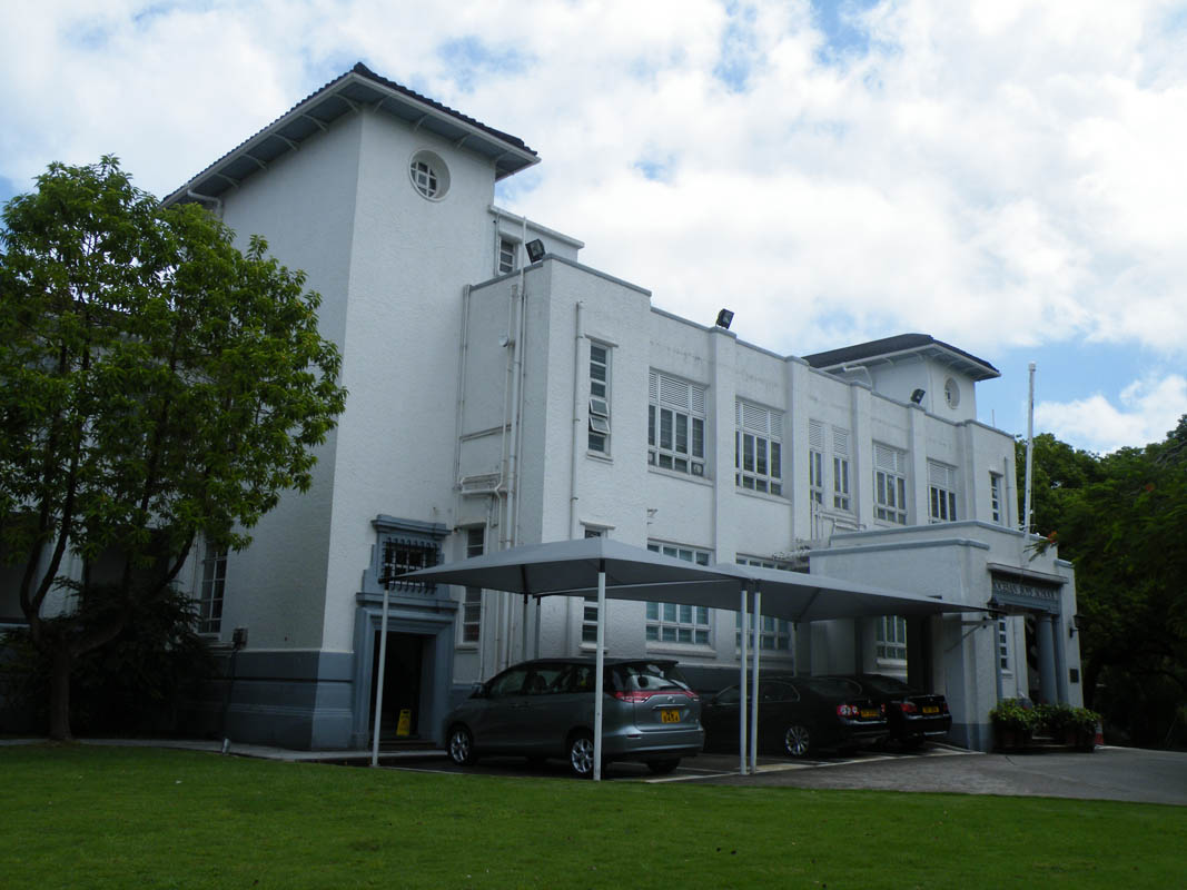 Diocesan Boys' School Main Building